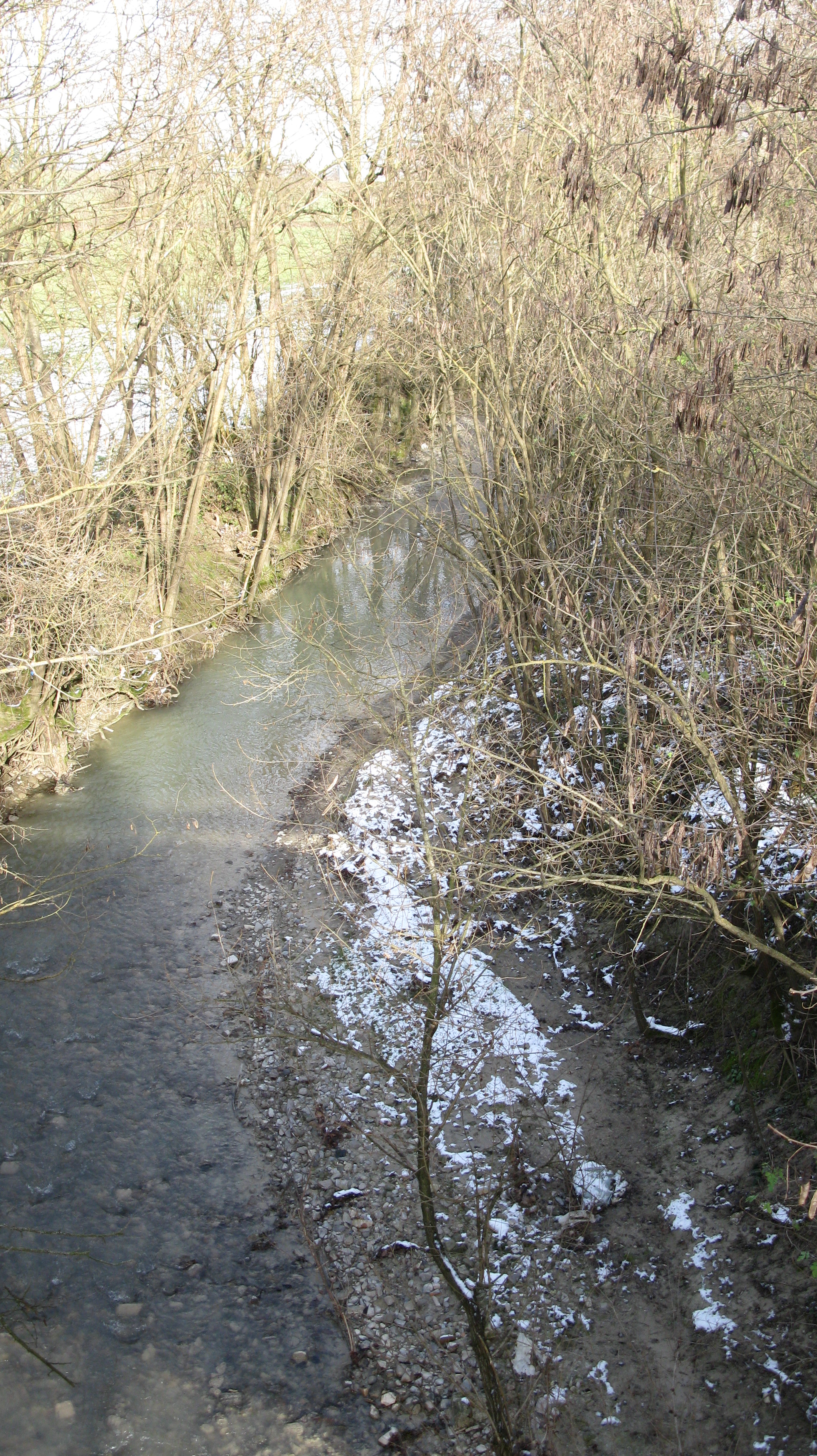 Recchio river